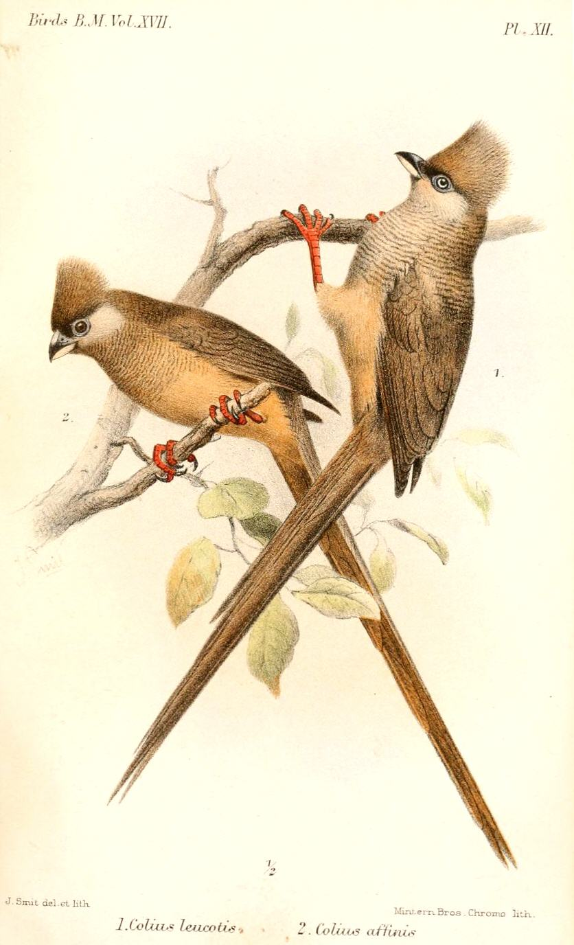 Speckled Mousebird (leucotis subspecies group)